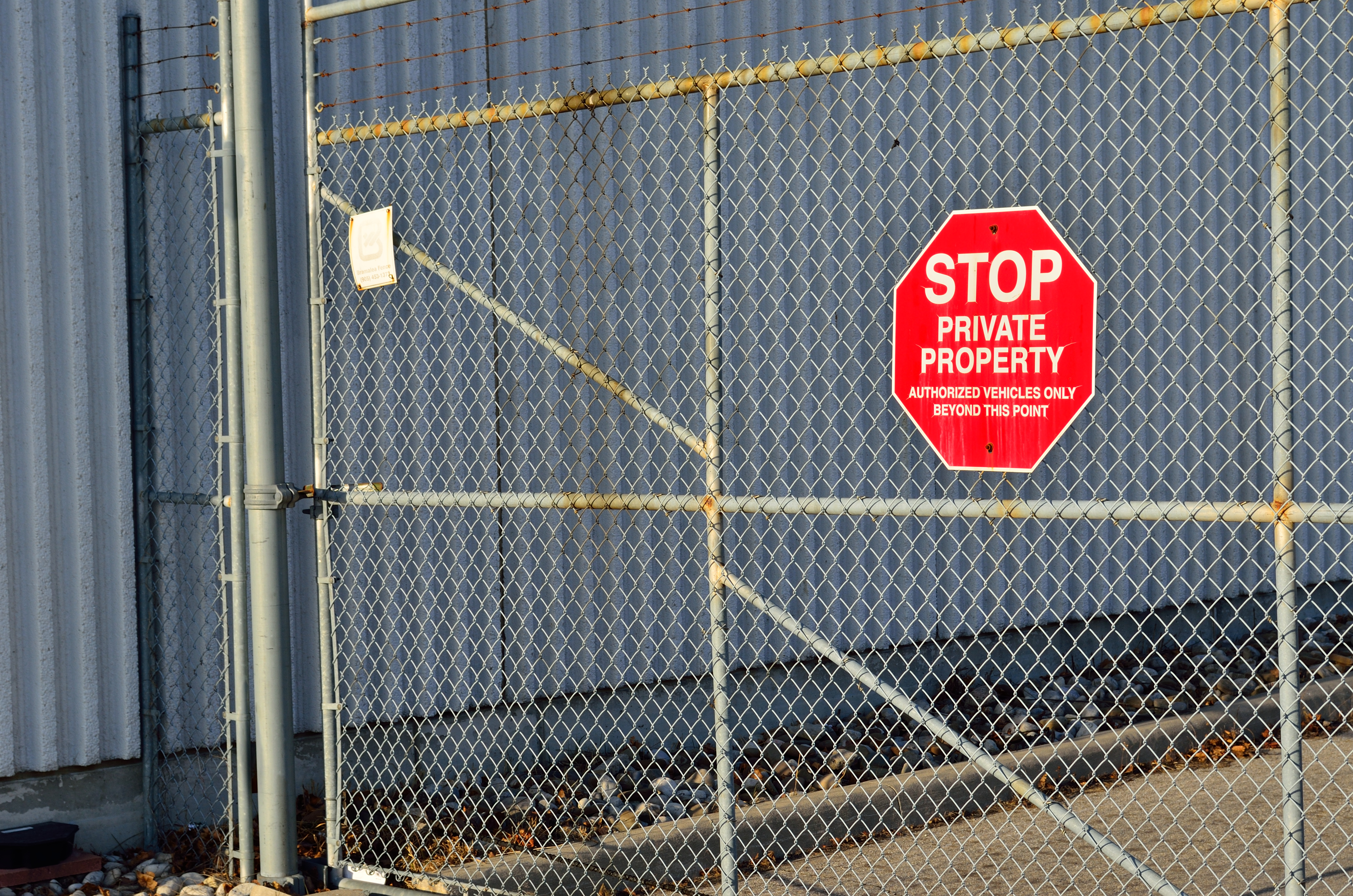 Gate with a red STOP Private Property sign